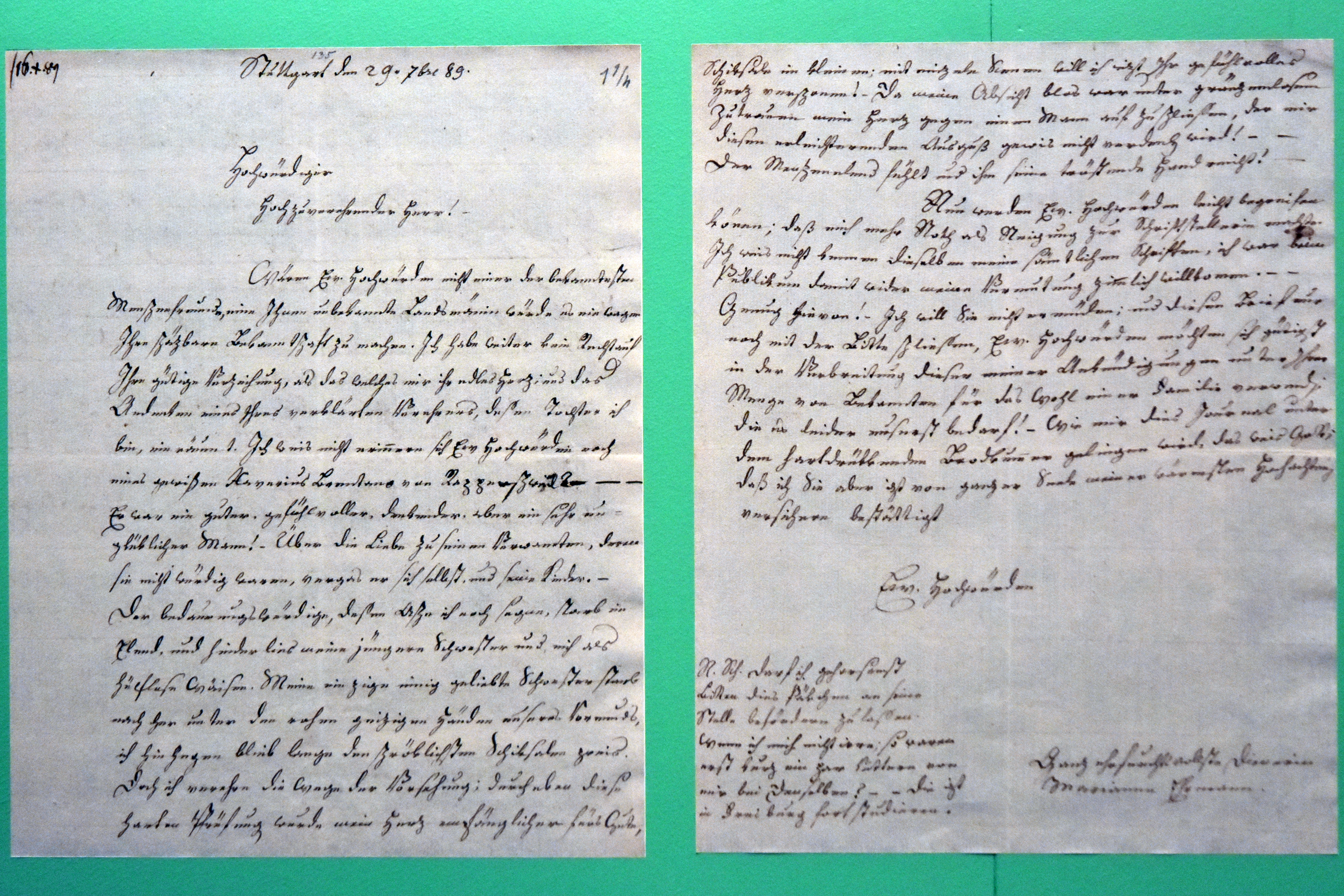 Collection of the Stadtmuseum) in Rapperswil (Switzerland): Ausstellung Der Zeit voraus. Drei Frauen auf eigenen Wegen. Marianne Ehrmann-Brentano Schriftstellerin und Journalistin (1755–1795) ++ Alwina Gossauer Fotografin und Geschäftsfrau (1841–1926) ++ Martha Burkhard Globetrotterin und Malerin (1874–1956) : Marianne Ehrmann-Brentano, Handschrift in ihrem Brief vom 29. September 1789 an Johann Caspar Lavater in Zürich, mit dem sie in Briefkontakt stand. In ihrem Brief schildert sie Lavater ihre schwierige Lebenssituation und bittet ihn, bei seinen Bekannten für ihre Zeitschrift zu werben.